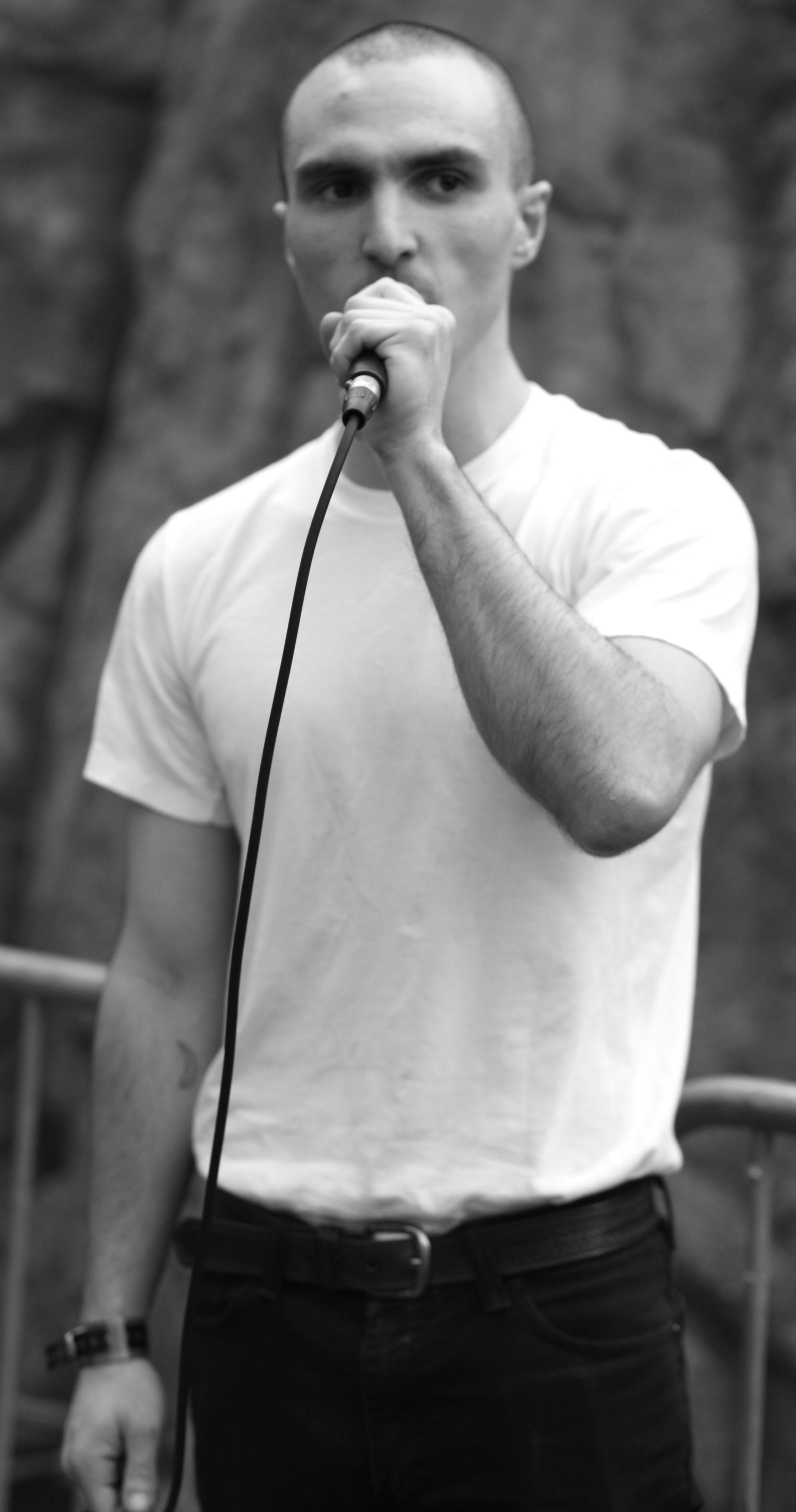 Devon Welsh, Majical Cloudz, SPIN house, SXSW 2013